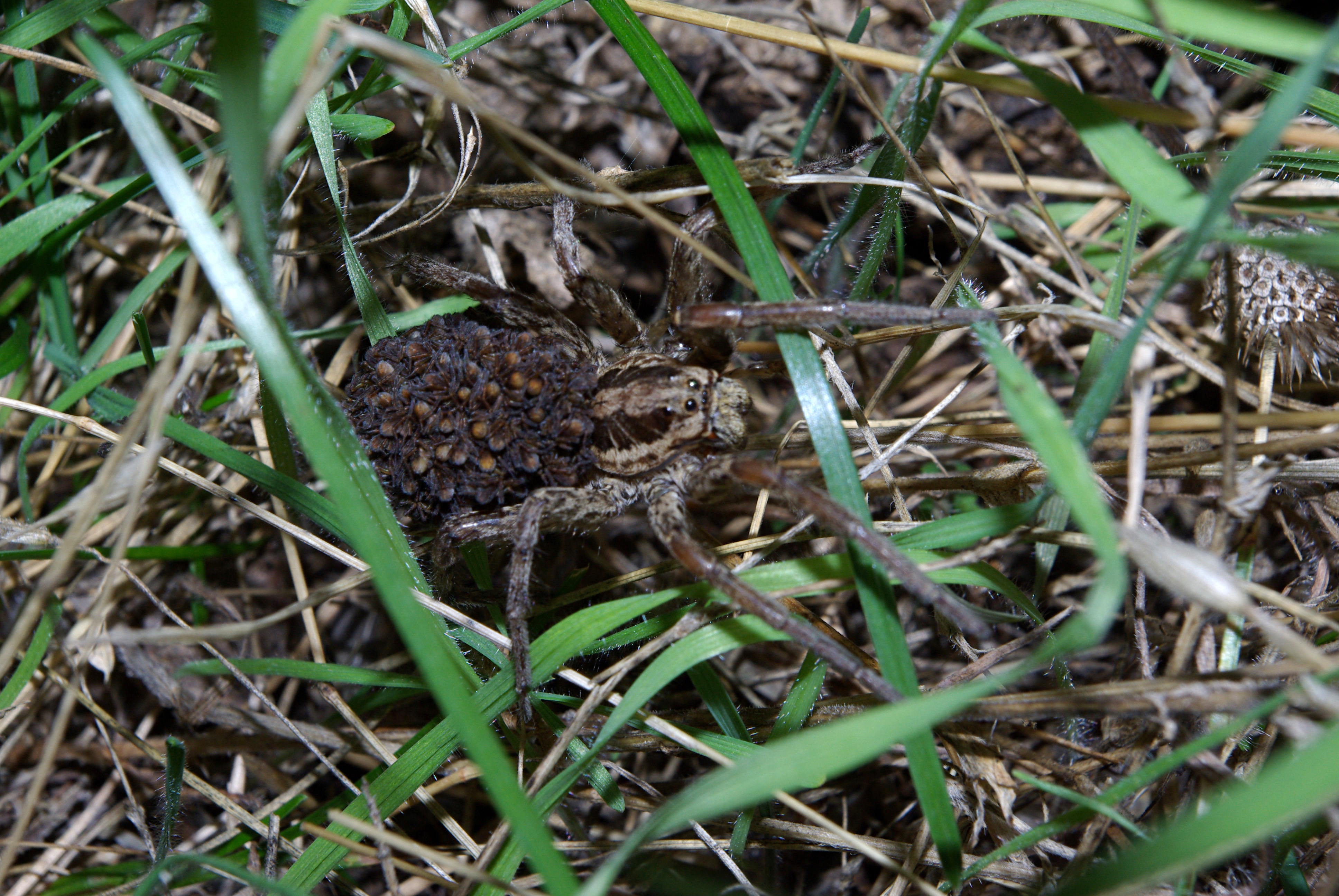 Tarantula wolf spider (Lycosa tarantula). Carrying offspring on her abdomen. León (Spain).